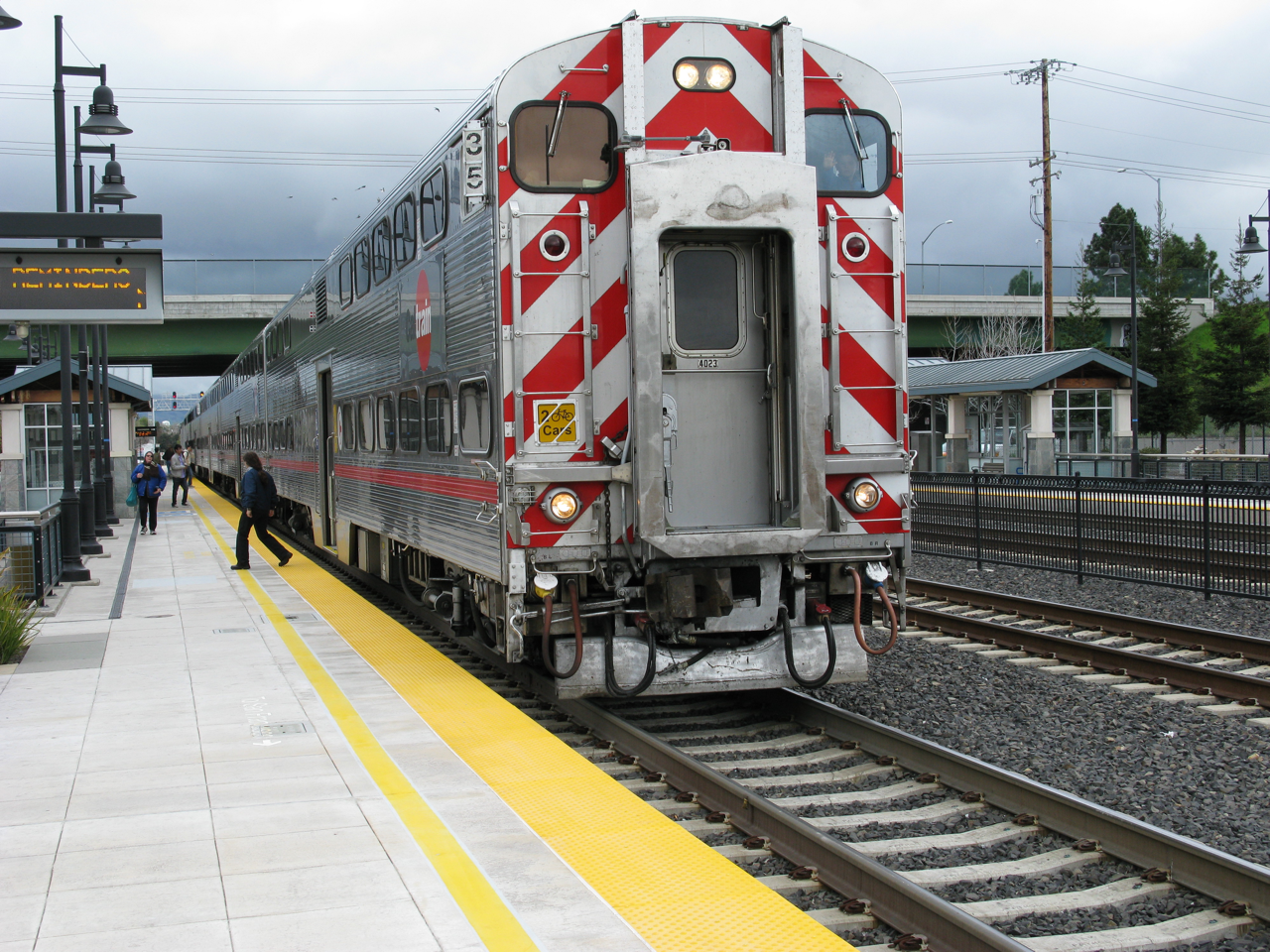 Lawrence (Caltrain) station underneath Lawrence Expressway (formerly named Lawrence Station Road), in Santa Clara, CA